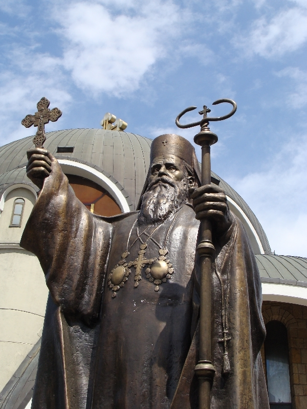 Monument od Dositej, St. Kliment Cathedral, Skopje